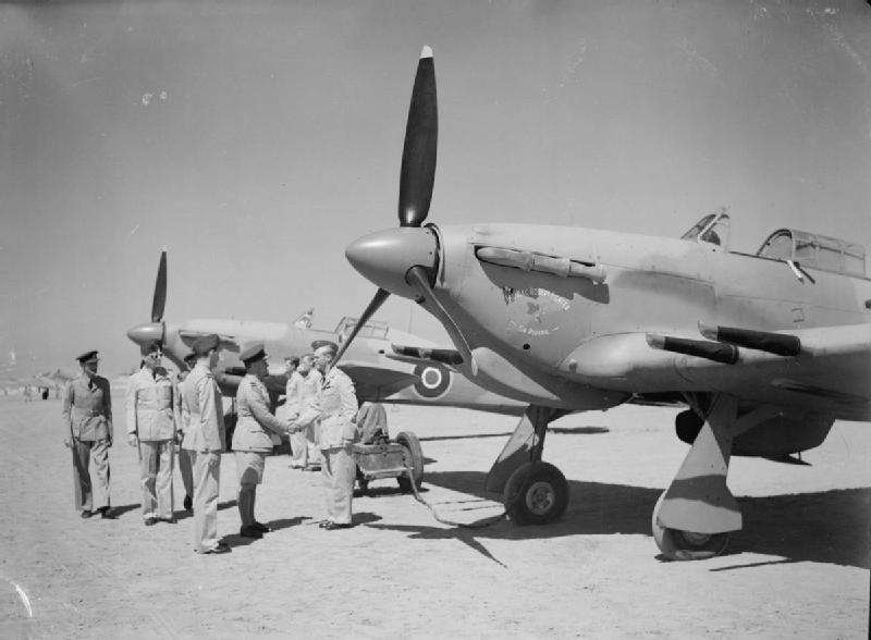 Royal Air Force- Operations in the Middle East and North Africa, 1940-1943. The Air Officer Commanding Air Headquarters Egypt, Air Vice Marshal W A McClaughry, formally hands over to No. 94 Squadron RAF, four Hawker Hurricane Mark IICs presented to Middle East Command by Lady Rachel MacRobert, three of which were named after her sons, who all were killed flying in the early stages of the war. AVM McClaughry is seen here shaking hands with Pilot Officer A Walker, in front of HL735 "The MacRobert Fighter - Sir Roderic" during the ceremony, which took place at El Gamil, Egypt.